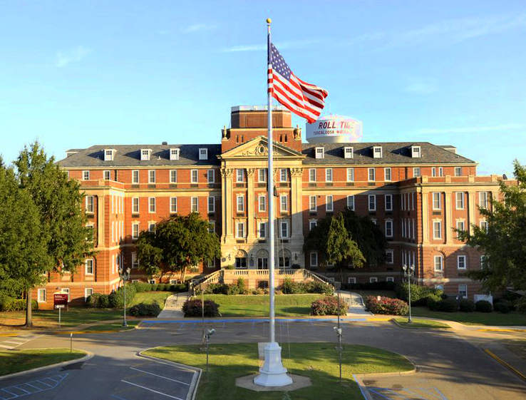 The administration building of the Tuscaloosa Veterans Administration Hospital in Tuscaloosa, Alabama.